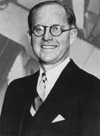 Joseph Kennedy, Sr. has served as a Commissioner of the U.S. Securities and Exchange Commission (SEC)